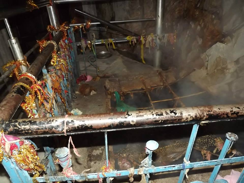 surya kund is the hot water spring present at yamunotri temple . because a geological fault line runs beyond uttarakhand state. this kund serves both the purpose of giving devotees a source of hot water for cooking food and also have a nice relaxing bath some steps down at common bathhouse even in chilling cold weather at the hill top where this temple is located . as a tradition devotees bring rice from their home or purchase it from local market here. they cook this rice by immersing a bag full of it in a muslin cloth in this surya kund till it is boiled enough to eat. and then take some of it home as prasadam. story runs that maa yamuna once seeing the ill condition of her devotees who come for her darshan at yamunotri temple and find nothing to fulfill their appettite due to absence of any edible item at temple , asked her father lord surya a wish for a ray or kiran of her sunshine that can heat the water for always so that devotees can bring along their food uncooked and cook it here and eat fresh thereby ensuring their good health. as a result of the grant of that wish by lord surya to her daughter , till date surya kund is a hot water spring that has fulfilled its duty both for maa yamuna & her devotees providing hot water withstanding any limitations of nature.